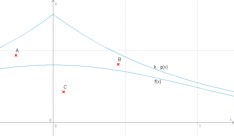 Exemple of Rejection sampling.